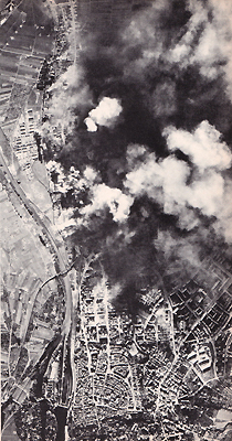 1943 United States Army Air Forces strategic bombing raid on the ball bearing works at Schweinfurt, Germany.